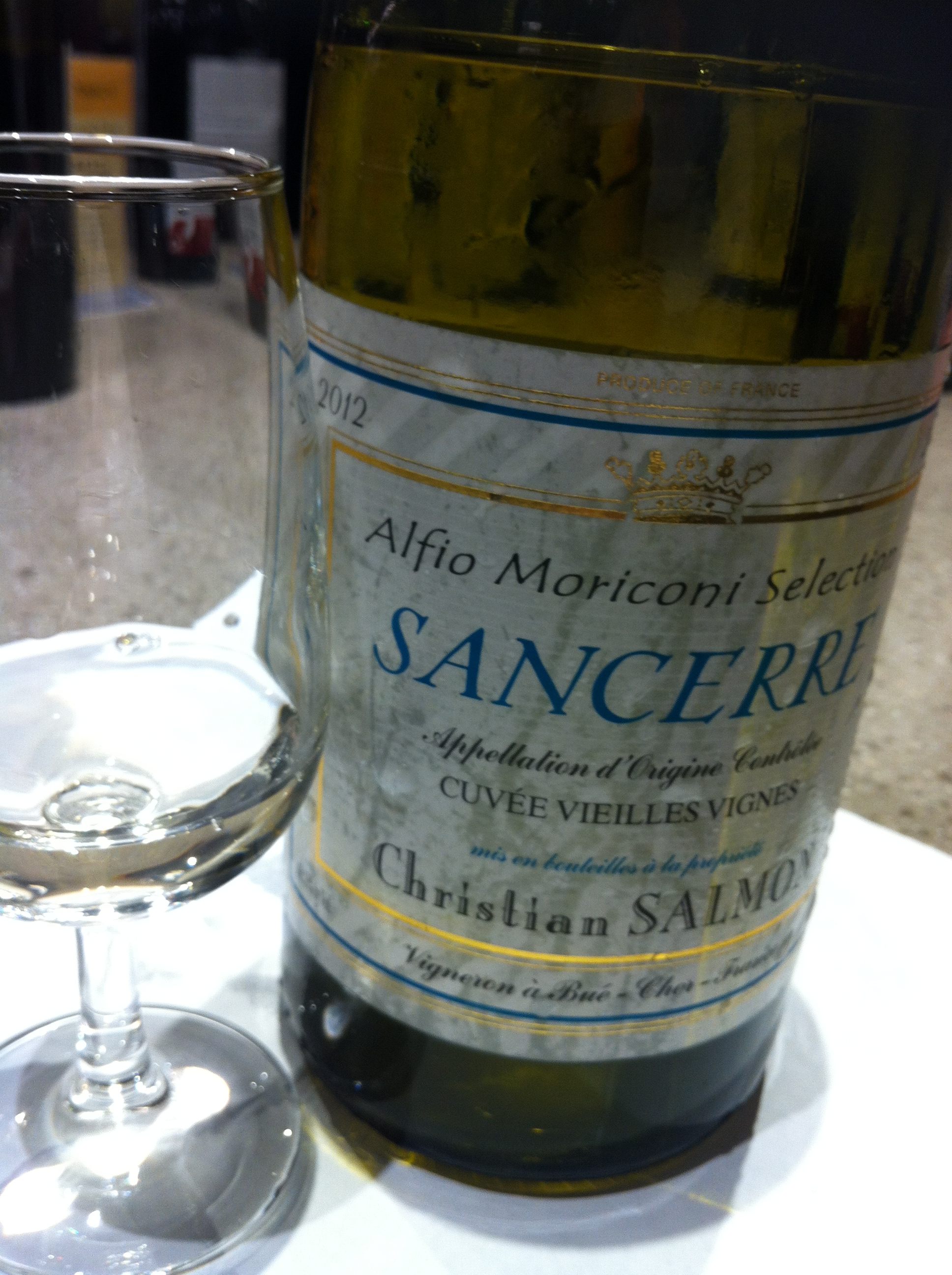 French white wine from the Loire Valley wine region of Sancerre made from Sauvignon blanc